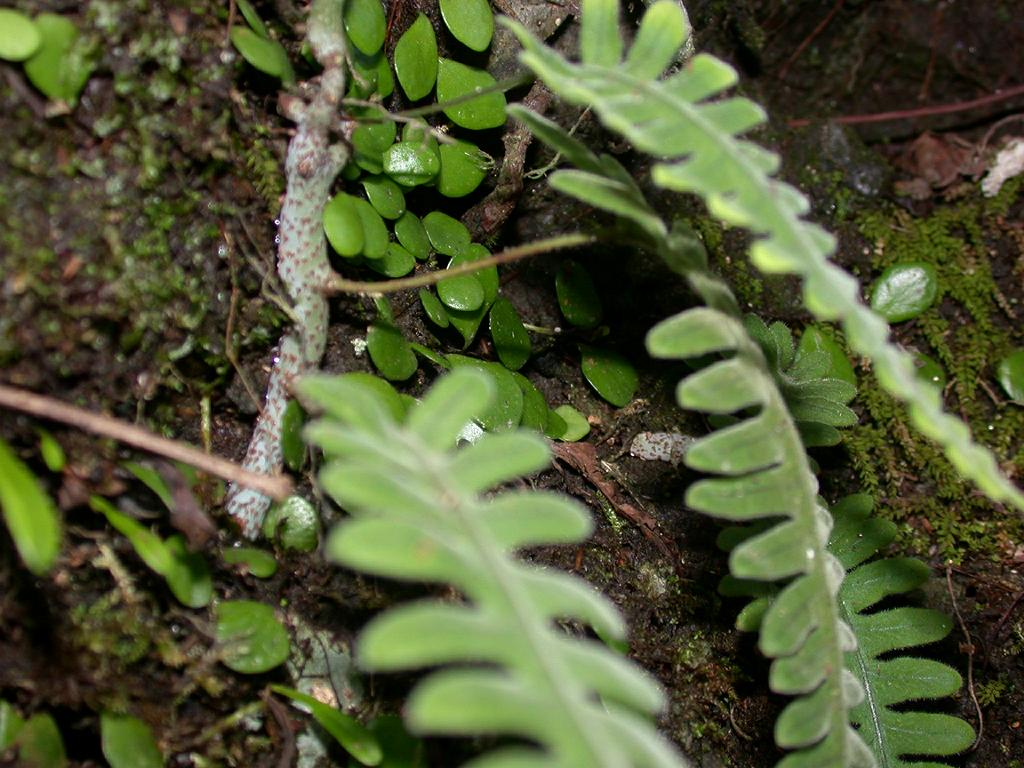 Polypodiodes nipponica (syn. Polypodium nipponicum) Polypodiaceae Japanese name:Aonekazura Date;2007,1o.23;Tanabe city, Wakayama prefecture, Japan Author;Keisotyo